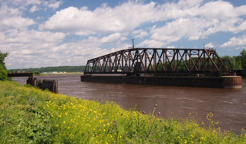 St. Paul Union Pacific Rail Bridge in the open position, viewed from Kaposia Landing, South St. Paul, Minnesota, USA.